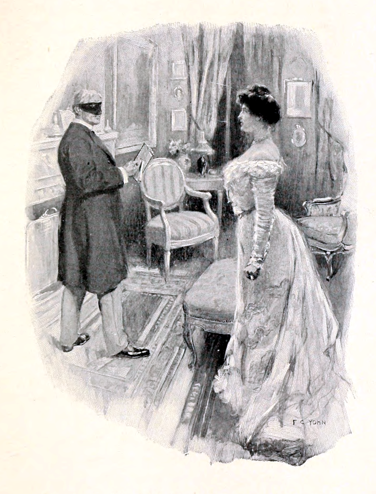 Illustrations from the book Raffles (Charles Scribner's sons, 1906), of the short story "An Old Flame", written by E. W. Hornung and illustrated by F. C. Yohn